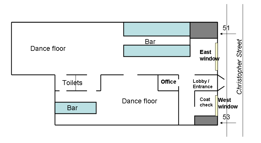 Layout of the Stonewall Inn in 1969. Source: Carter, David (2004). Stonewall: The Riots that Sparked the Gay Revolution, St. Martin's Press. ISBN 0312342691, (p. 1, photo spread)